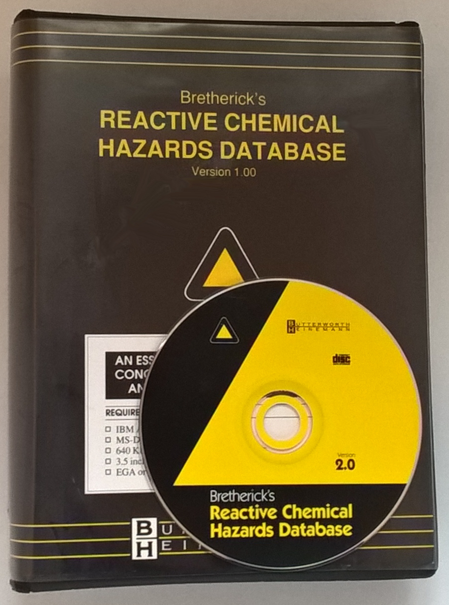 Brethderick's Handbook of Reactive Chemical Hazards database, versions 1.0 (3.5" floppy discs inside case, 1991) and 2.0 (CD-ROM)